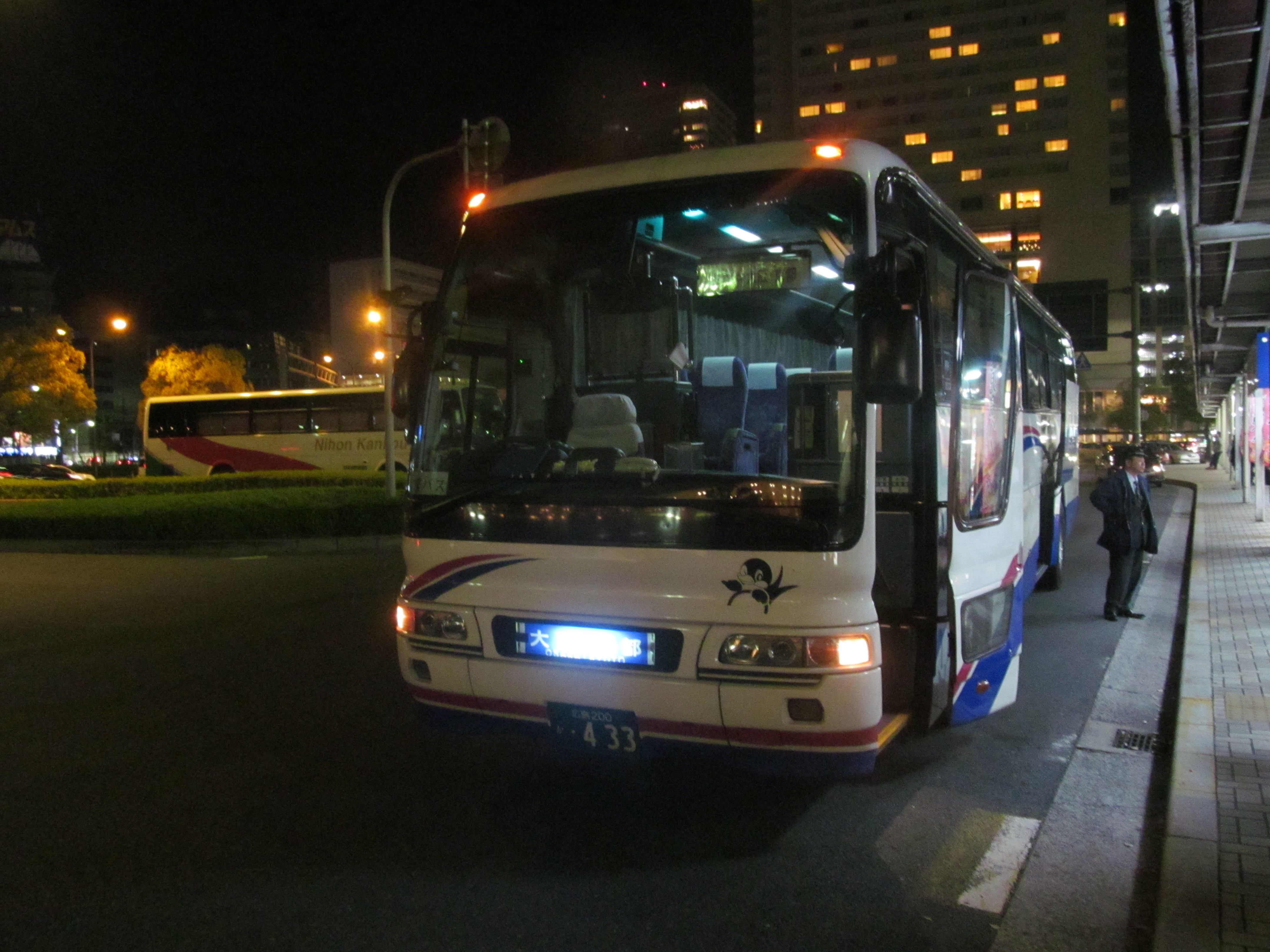 ChugokuJRBus SeishunDram Hiroshima For Osaka Kyoto